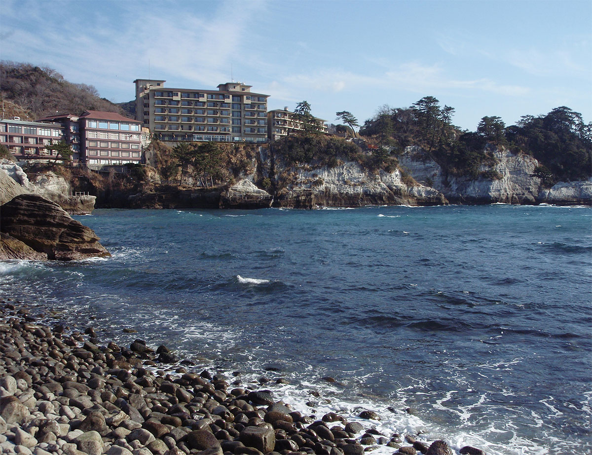 Dogashima Onsen's peculiar coast and Hotels, located in the east part of Shizuoka prefecture, Japan.